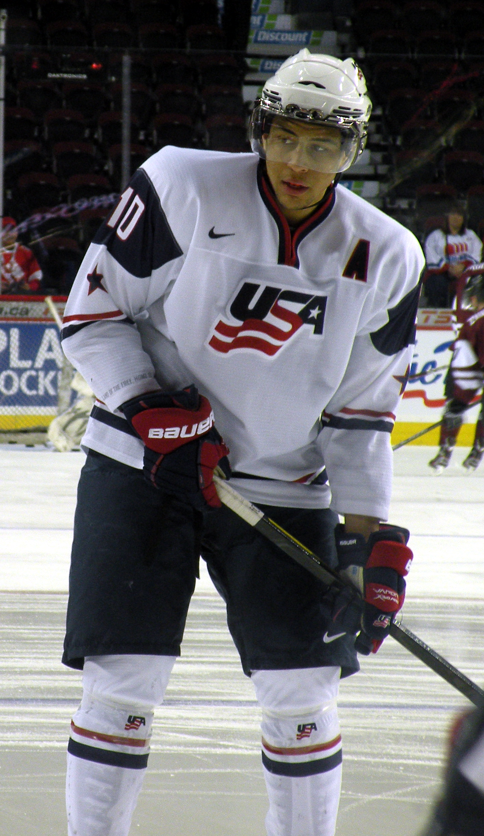 Team USA forward Emerson Etem prior to a game against Team Latvia at the 2012 World Junior Hockey Championships at Calgary, Alberta, Canada.